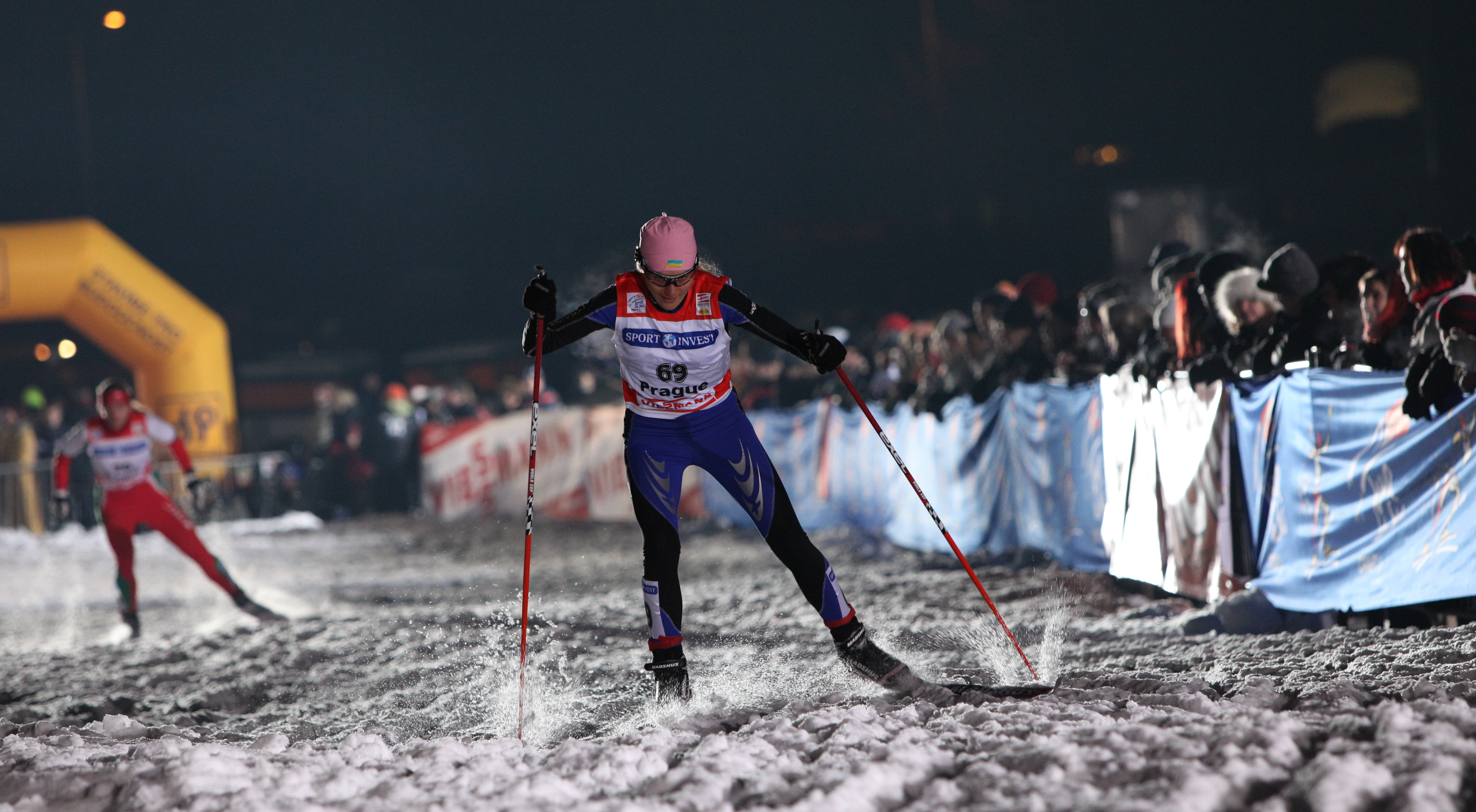 Lada Nesterenko, Ukrainian cross-coutry skier, in 2010